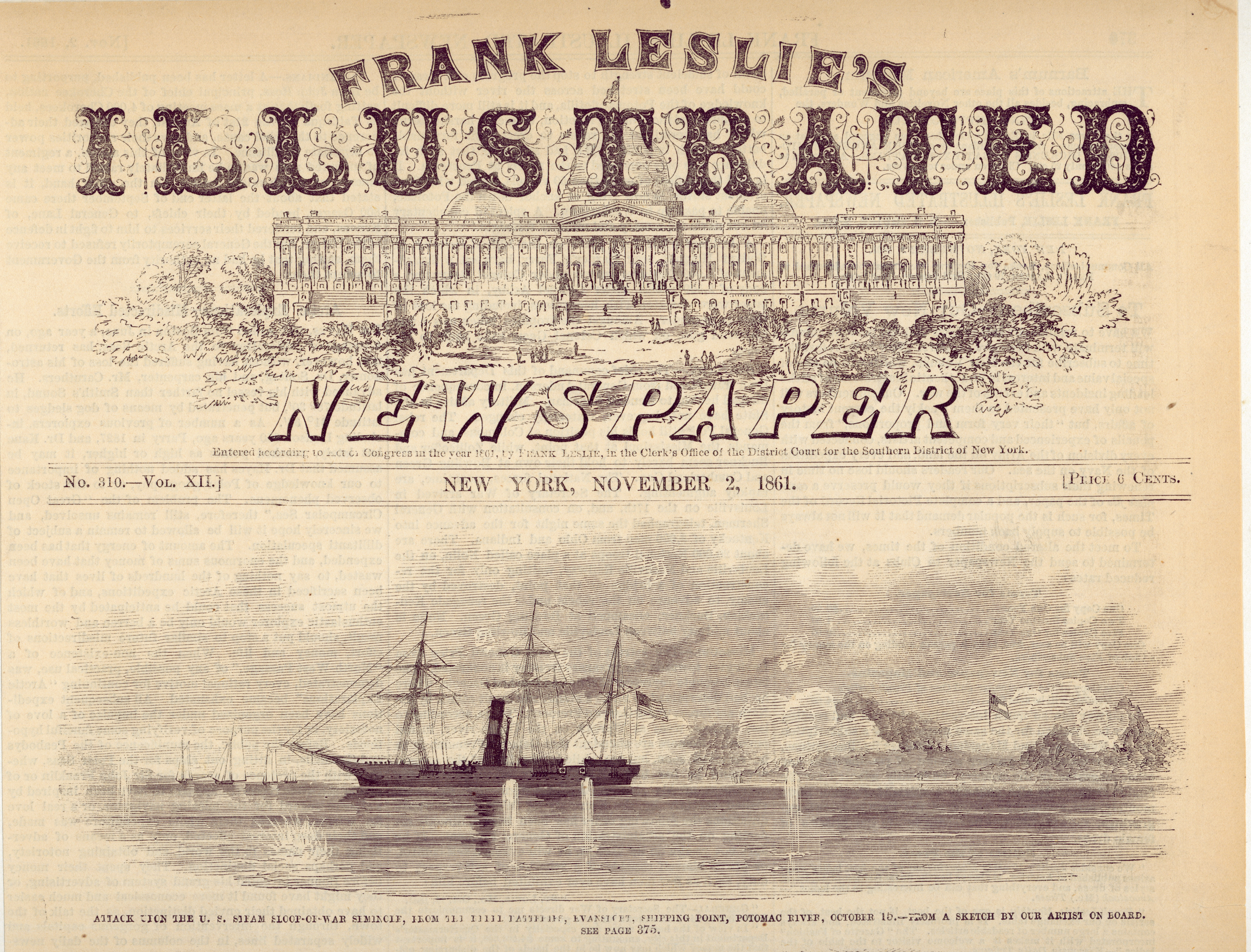 Print of a sailing ship in the foreground and a Confederate flag on the shore in the background. "ATTACK upON THE U. S. SLOOP-OF-WAR SEMINOLE, FROM the Field Batteries, Evansport, SHIPPING POINT, POTOMAC RIVER, OCTOBER 15. - FROM A SKETCH BY OUR ARTIST ON BOARD. SEE PAGE 375." (printed below image). Cover page of Frank Leslie's Illustrated Newspaper, No. 310, vol. XII, November 2, 1861.Title: "Attack upon the U. S. Steam Sloop-of-War Seminole, from the Field Batteries, Evansport, Shipping Point, Potomac River, October 15." Evansport (now downtown Quantico)